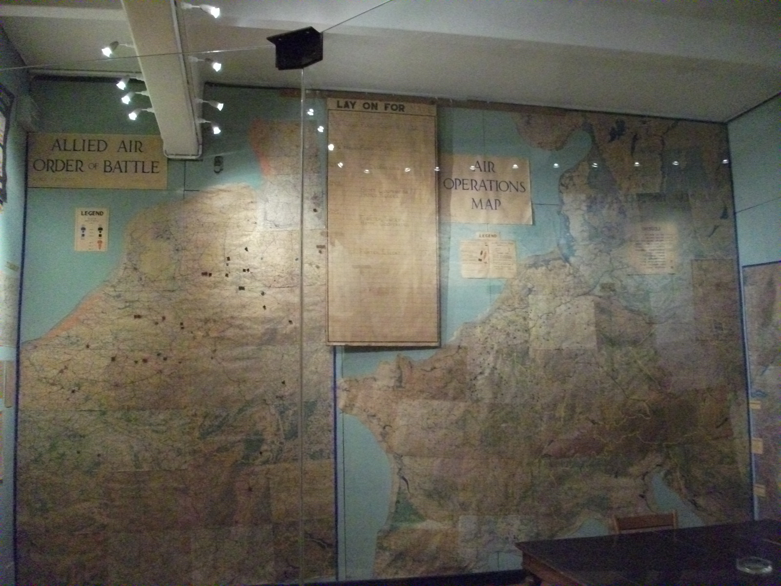 War Room, Museum of the surrender, Reims, maps, table of redundancy, series of photographs from the front door (south) turn right, N°3